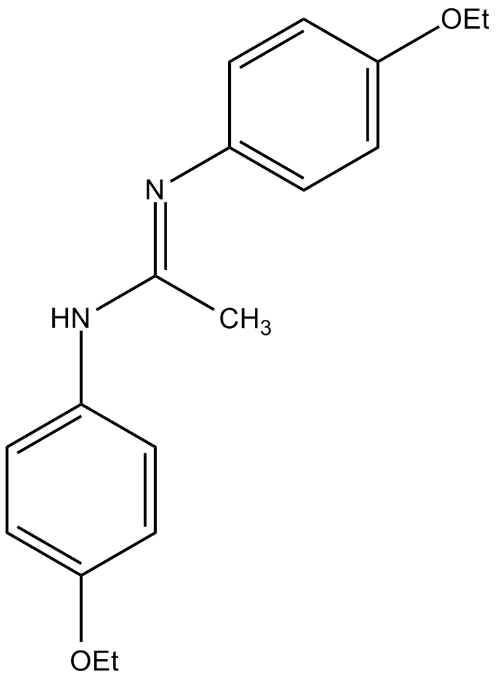 Local anesthetic.